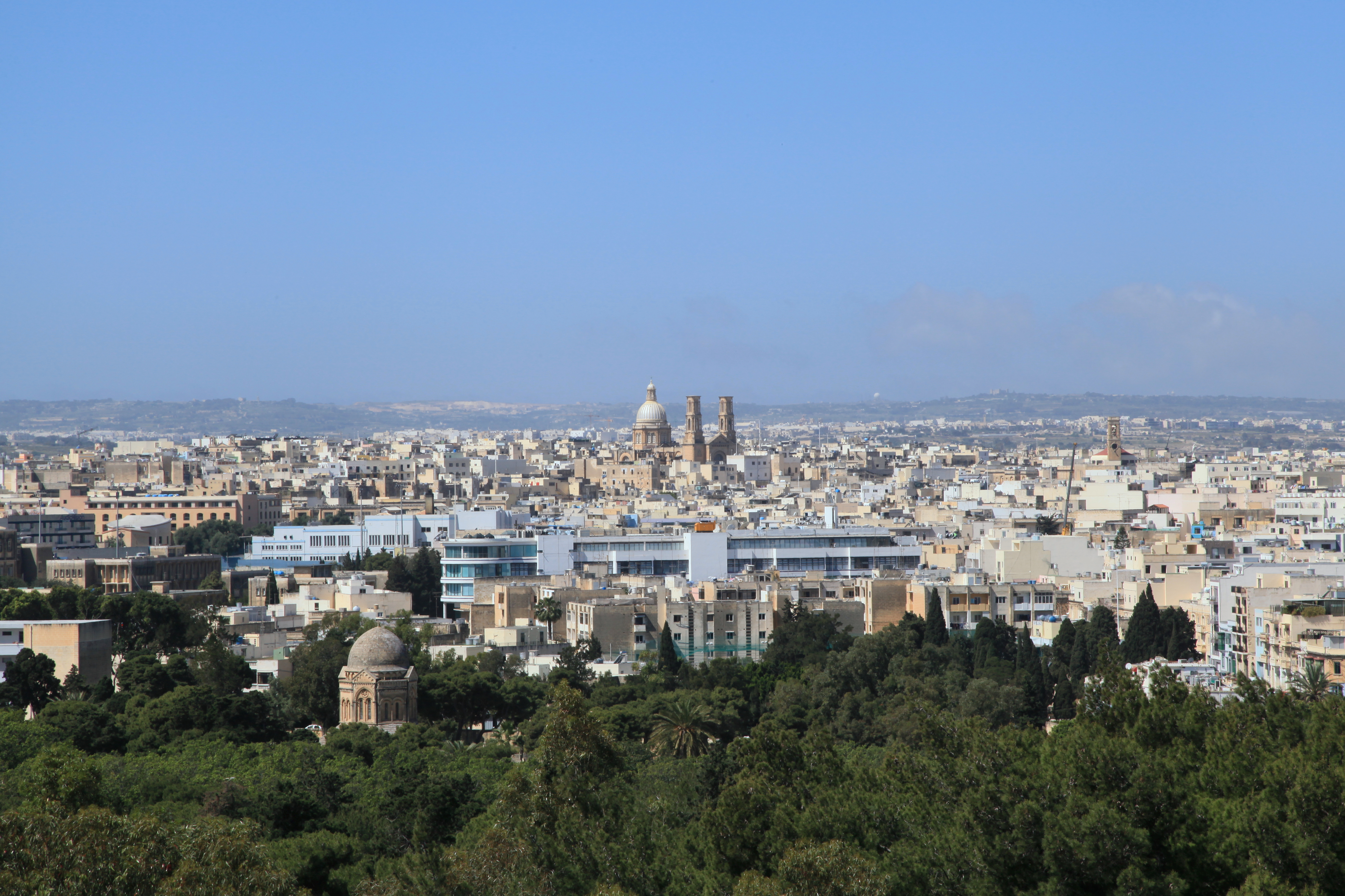 View from Argotti Botanic Gardens in Floriana to Pietà, Malta and Ħamrun, Malta